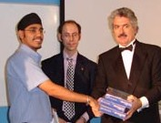 Dominic O´Brien at WMC 2006